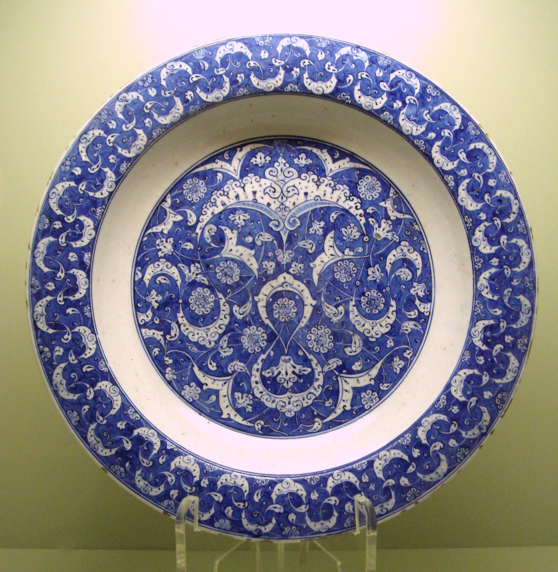 Iznik_ware_1500_1510